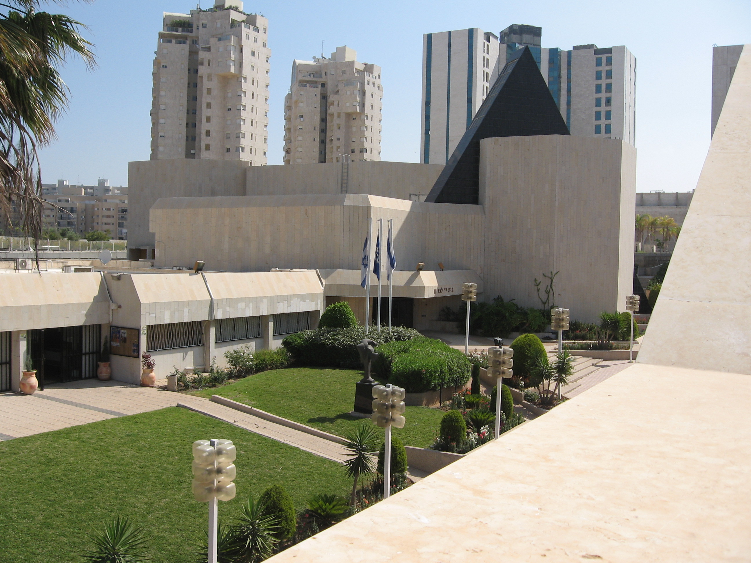 Yad LaBanim concert hall.